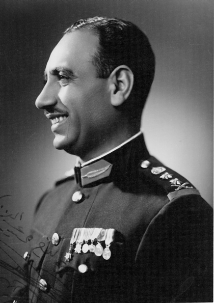 Abd as-Salam Arif (1921-1966), President of Iraq 1963-1966.